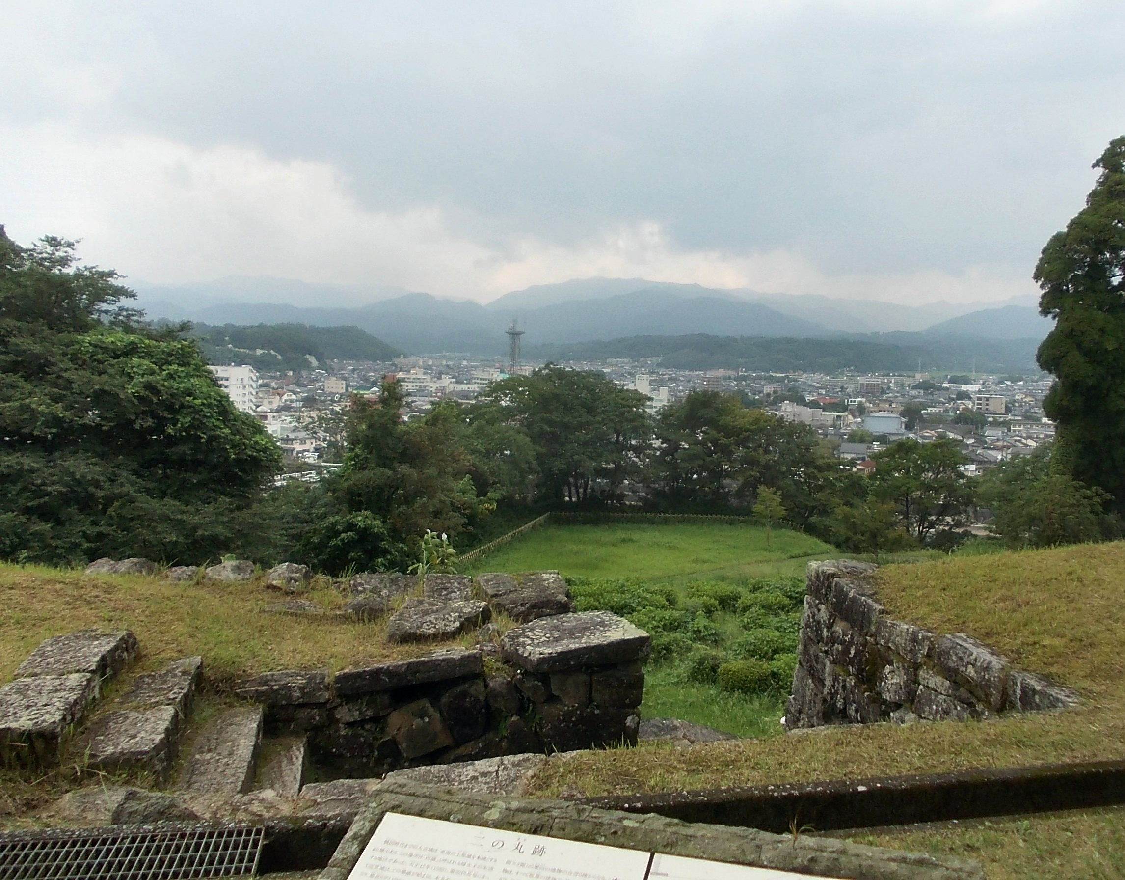 Hitoyoshi city panorama from the site of Hitoyoshi Castle Ni-no-maru.